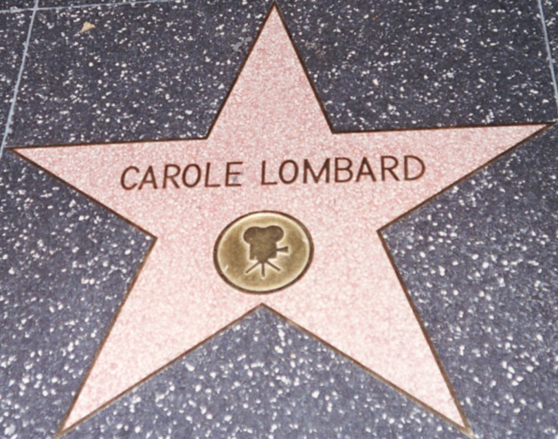 Photograph of star on the Hollywood Walk of Fame, for the actress Carole Lombard. Photograph was taken by User:Rossrs in August 1995.